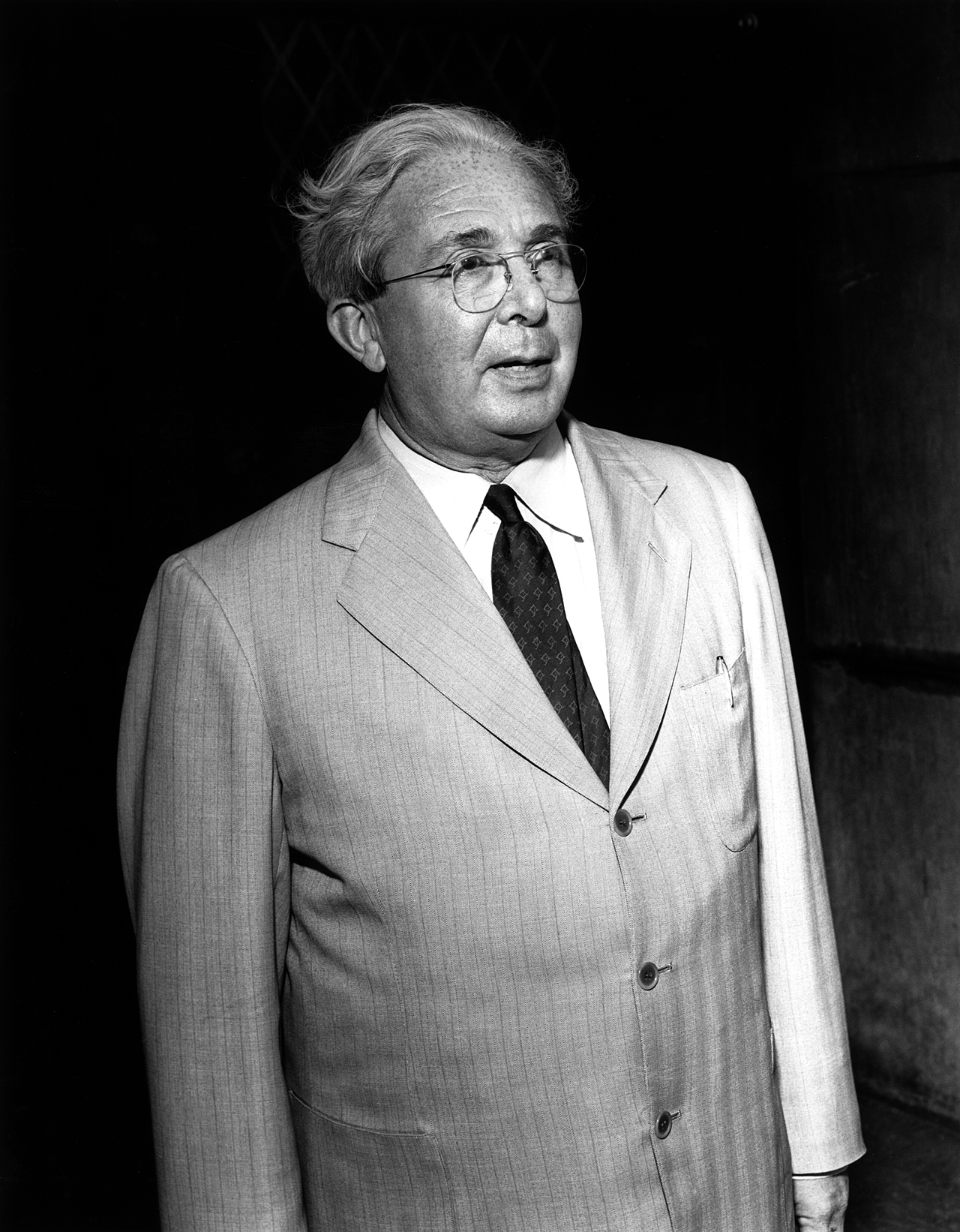 Physicist Leo Szilard. Probably circa 1960. DOE Digital Archive Image 2017774. "Credit: DOE Photo"